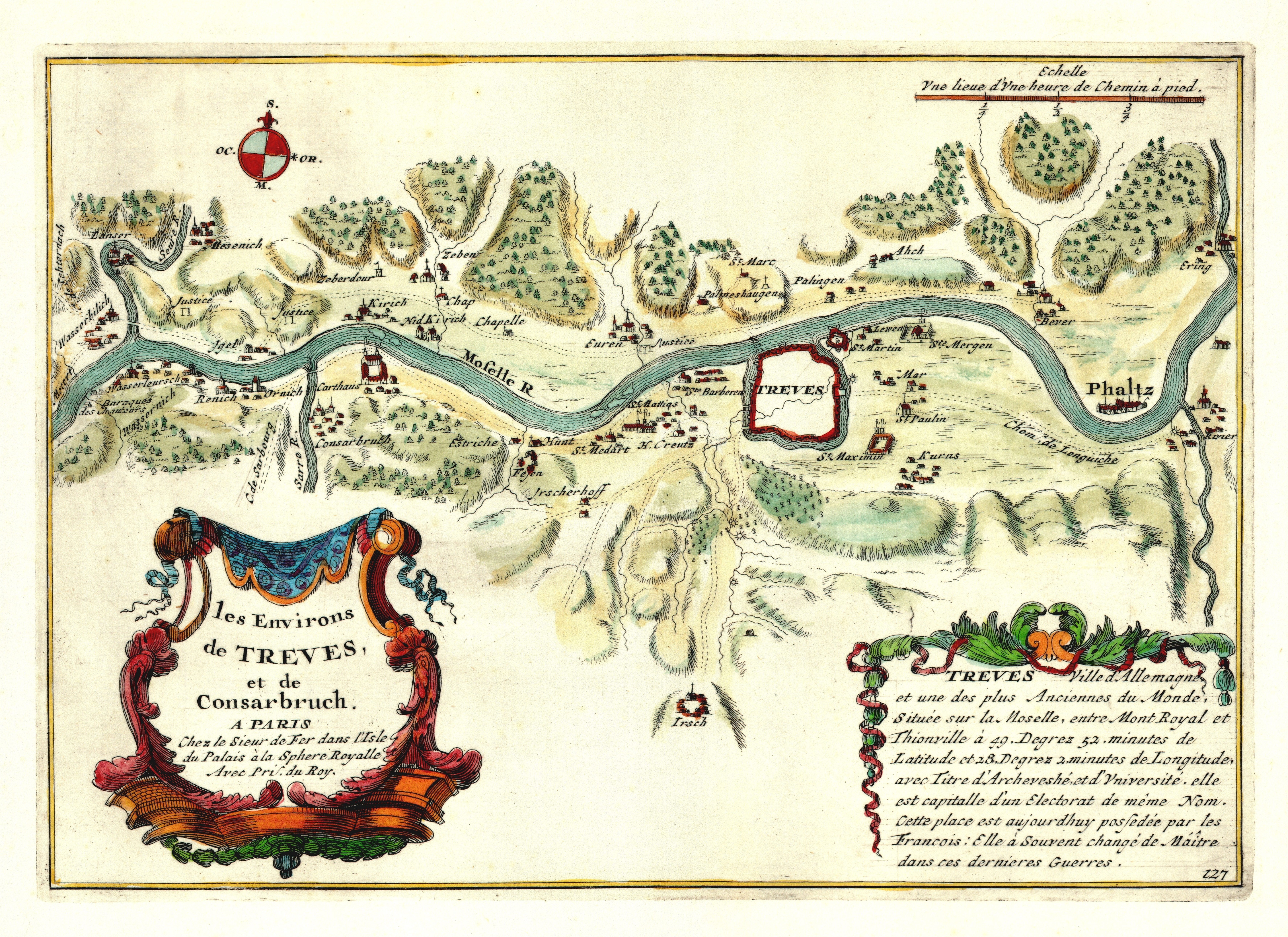 Nicolas de Fer, map of Trier and surroundings, 1692